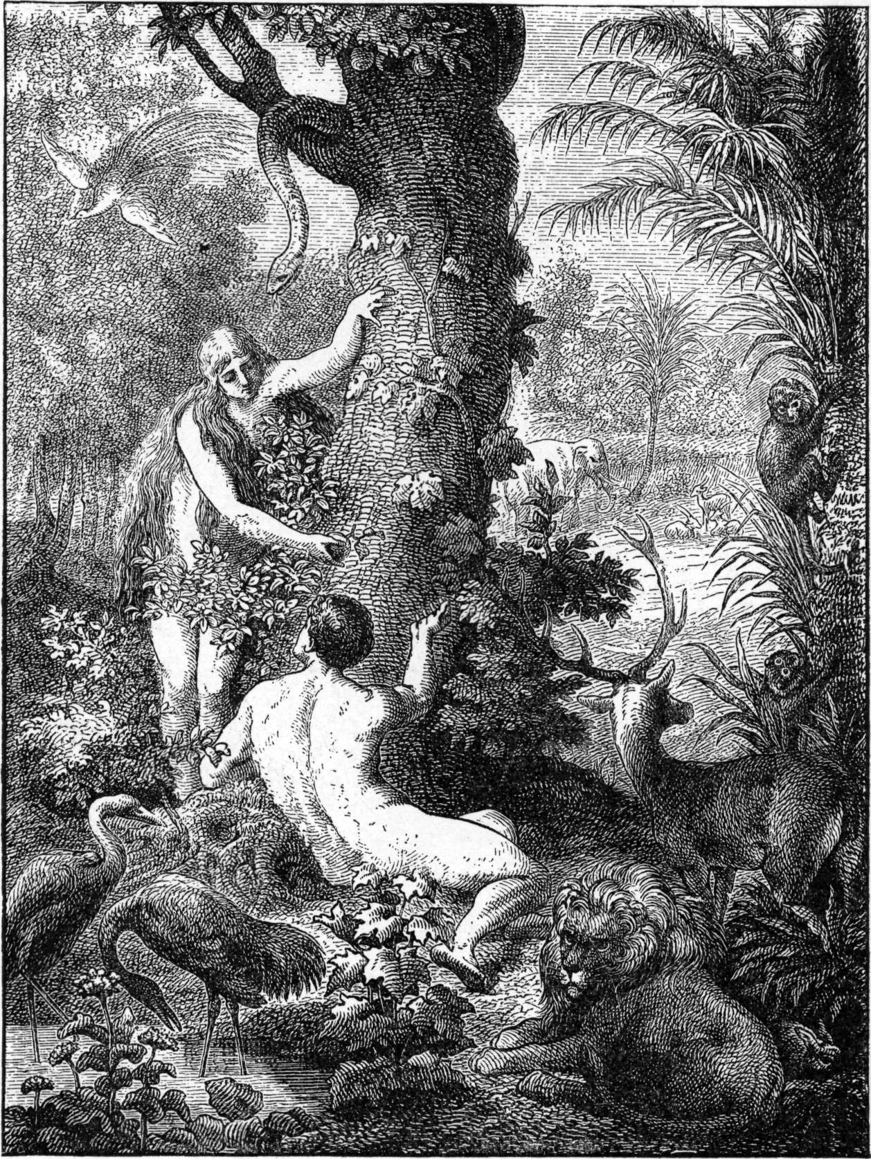 Adam and Eve are under the tree.